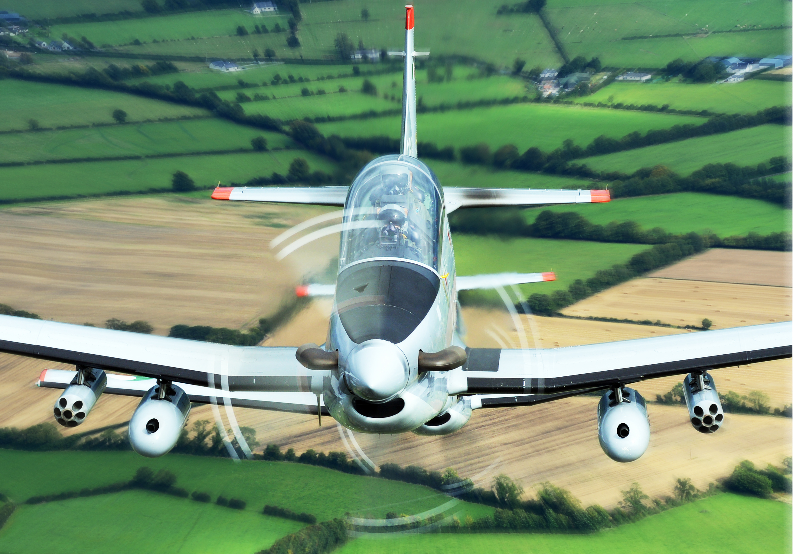 Pilatus PC-9 of the Irish Air Corp flying in formation